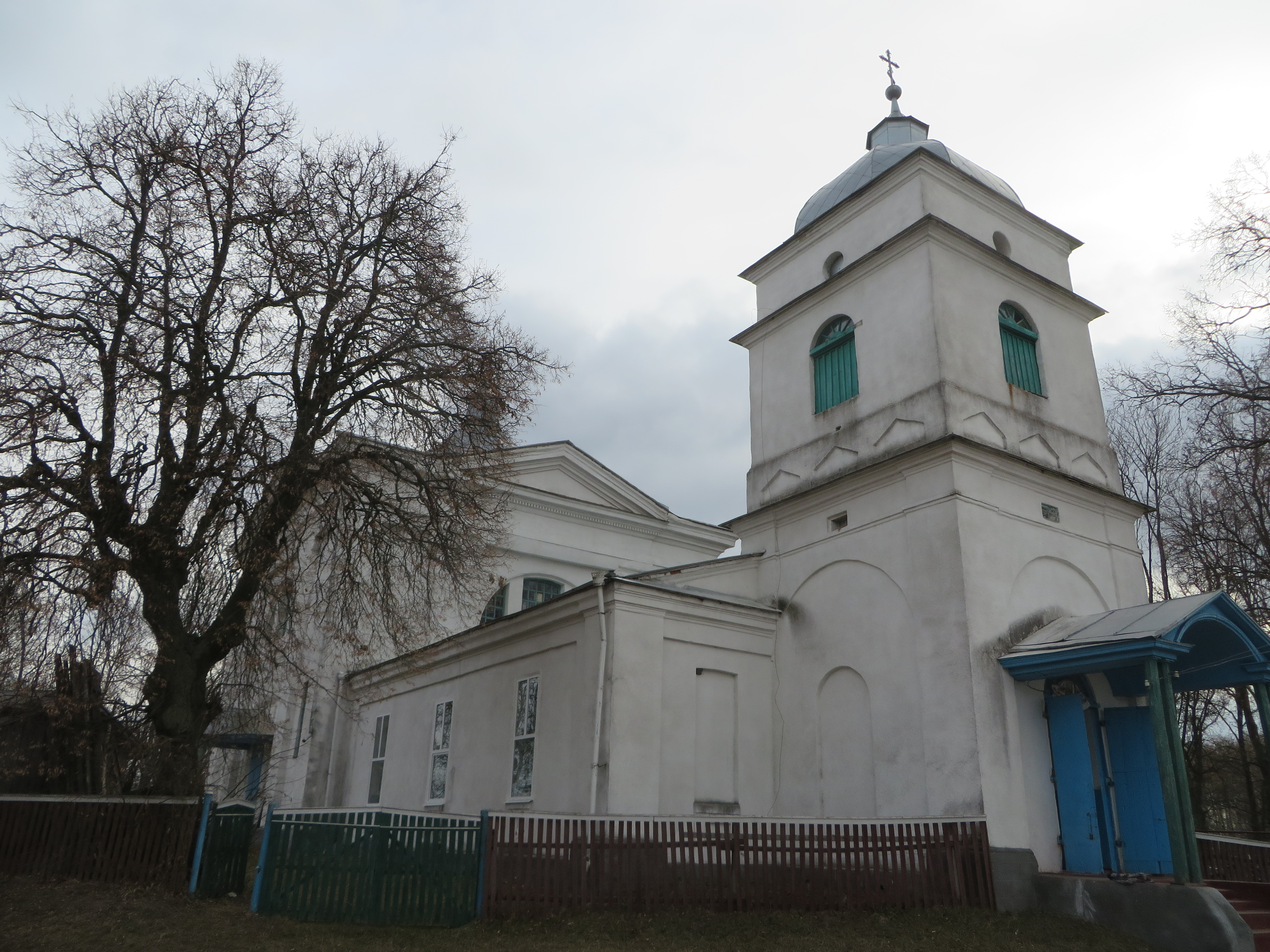 v. Stol'ne, Mena Raion, Chernihiv Oblast, Ukraine